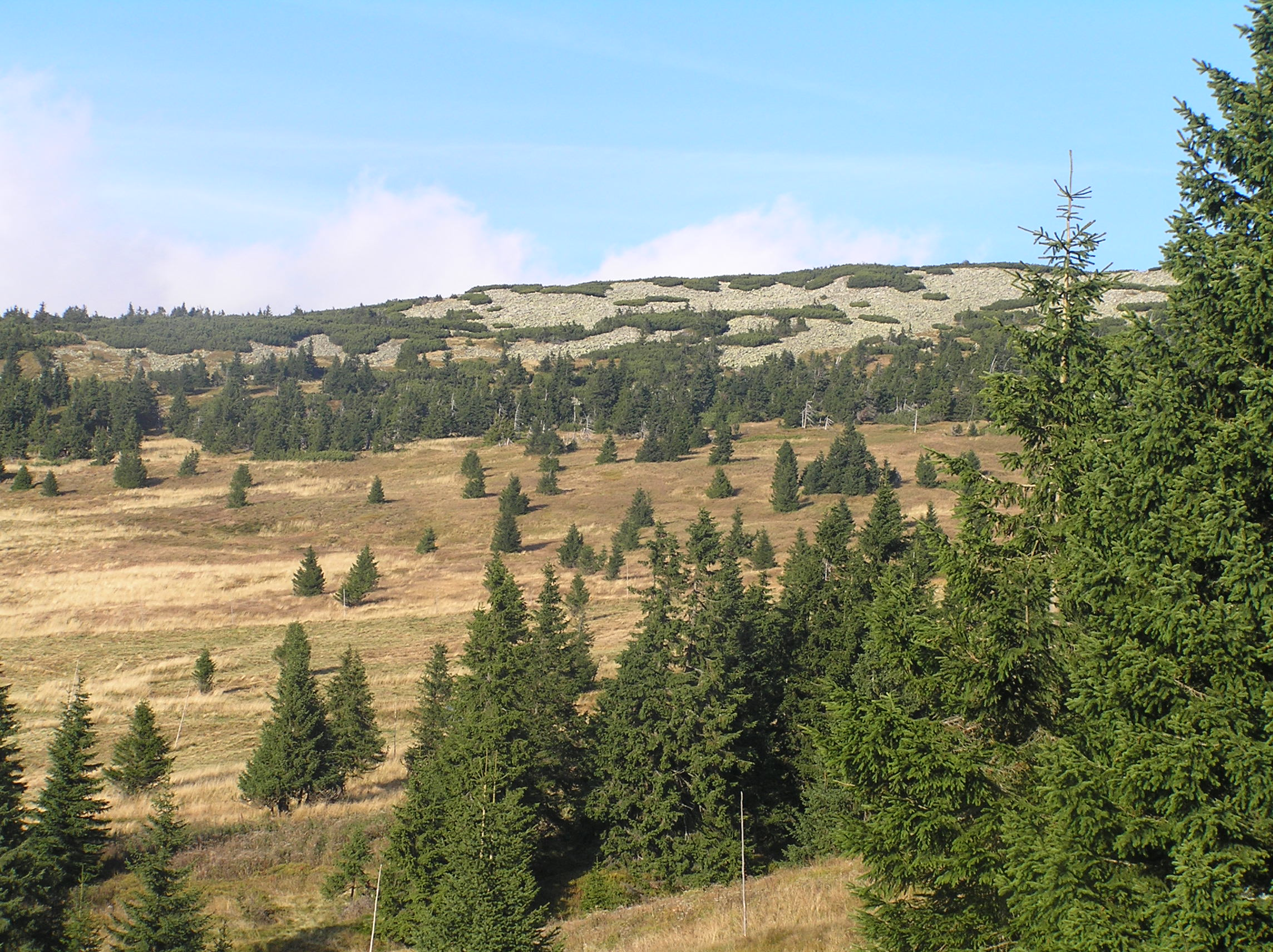 Zadní planina, Krkonoše, Czech Republic